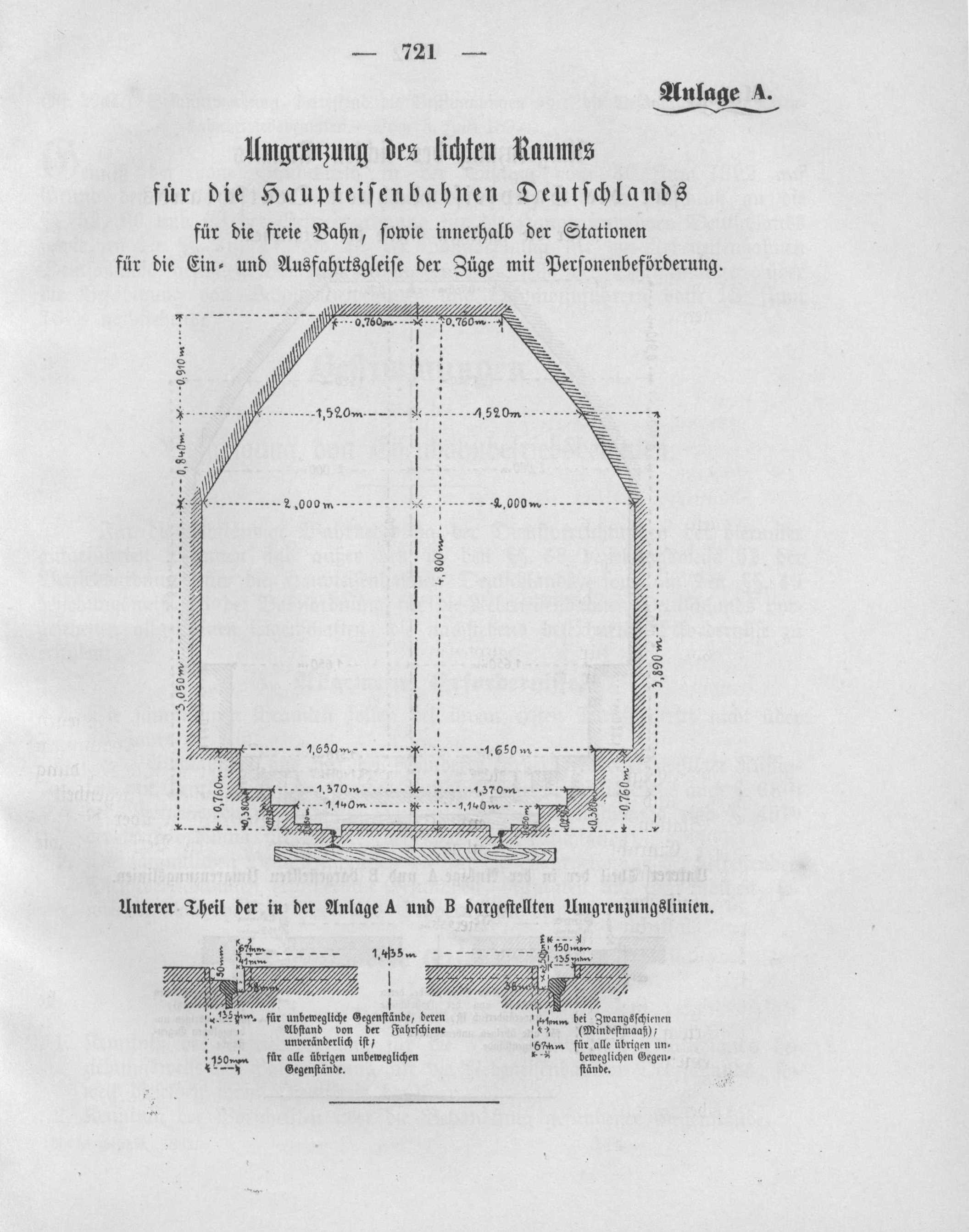 Scan from the Imperial Law Gazette of Germany, 1892